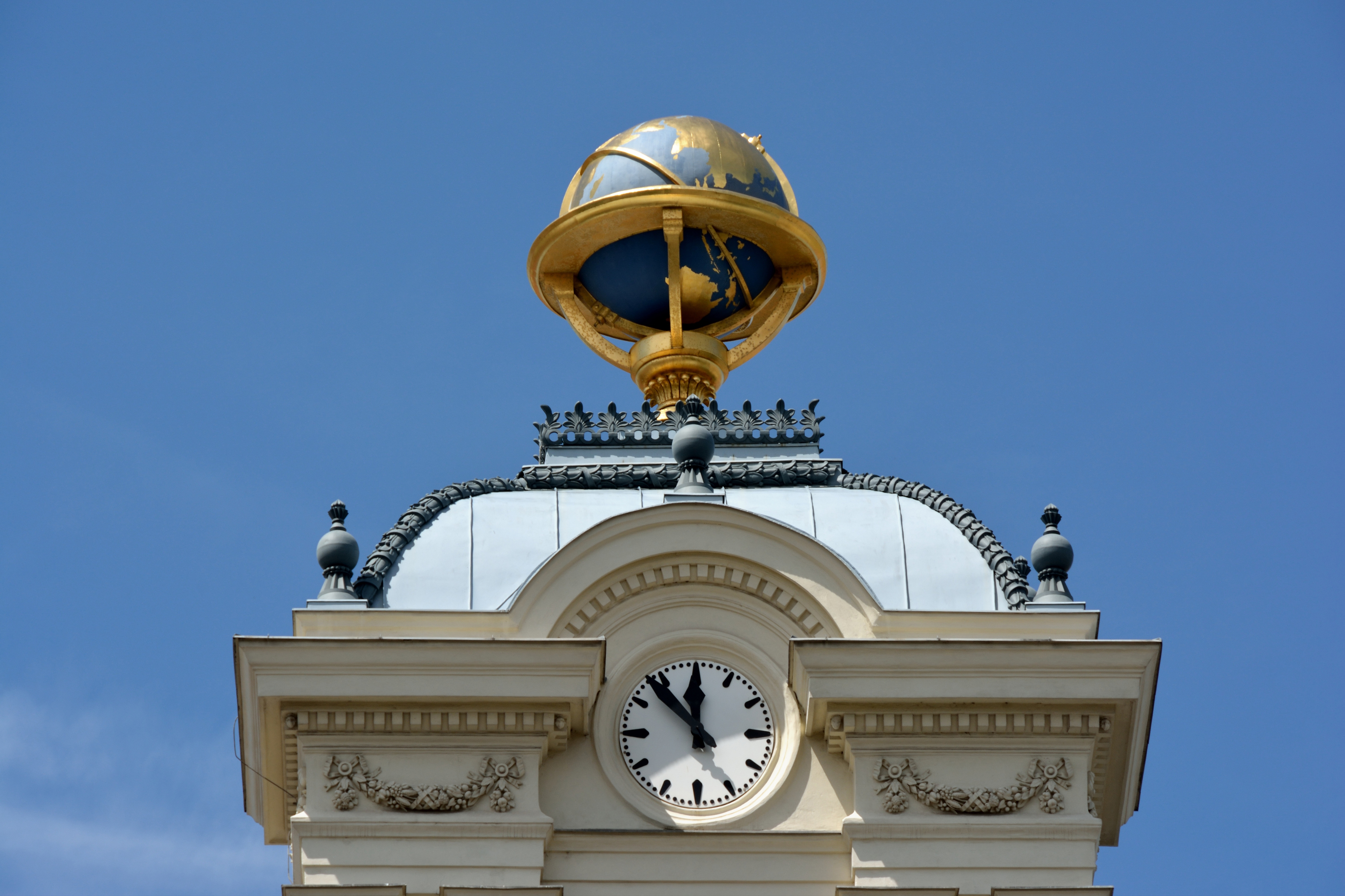 Former Institute of Military Geography, later called Bundesamt für Eich- und Vermessungswesen, facade detail, 8th district of Vienna